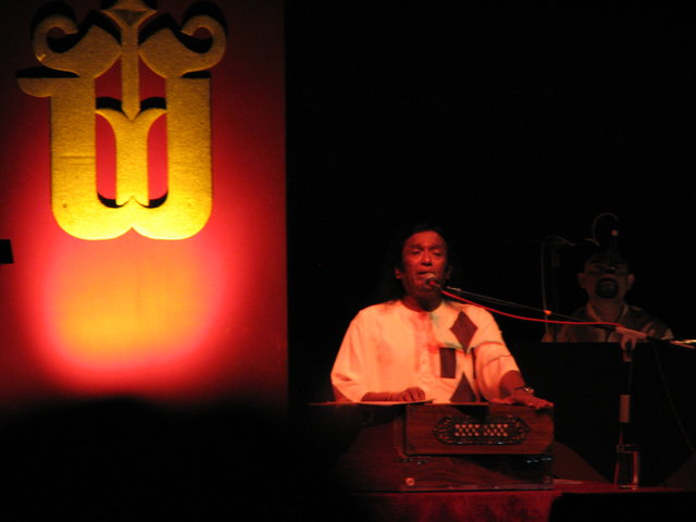 Dr Victor Ratnayaka performing in his "Sa" prasangaya ("Sa" concert)